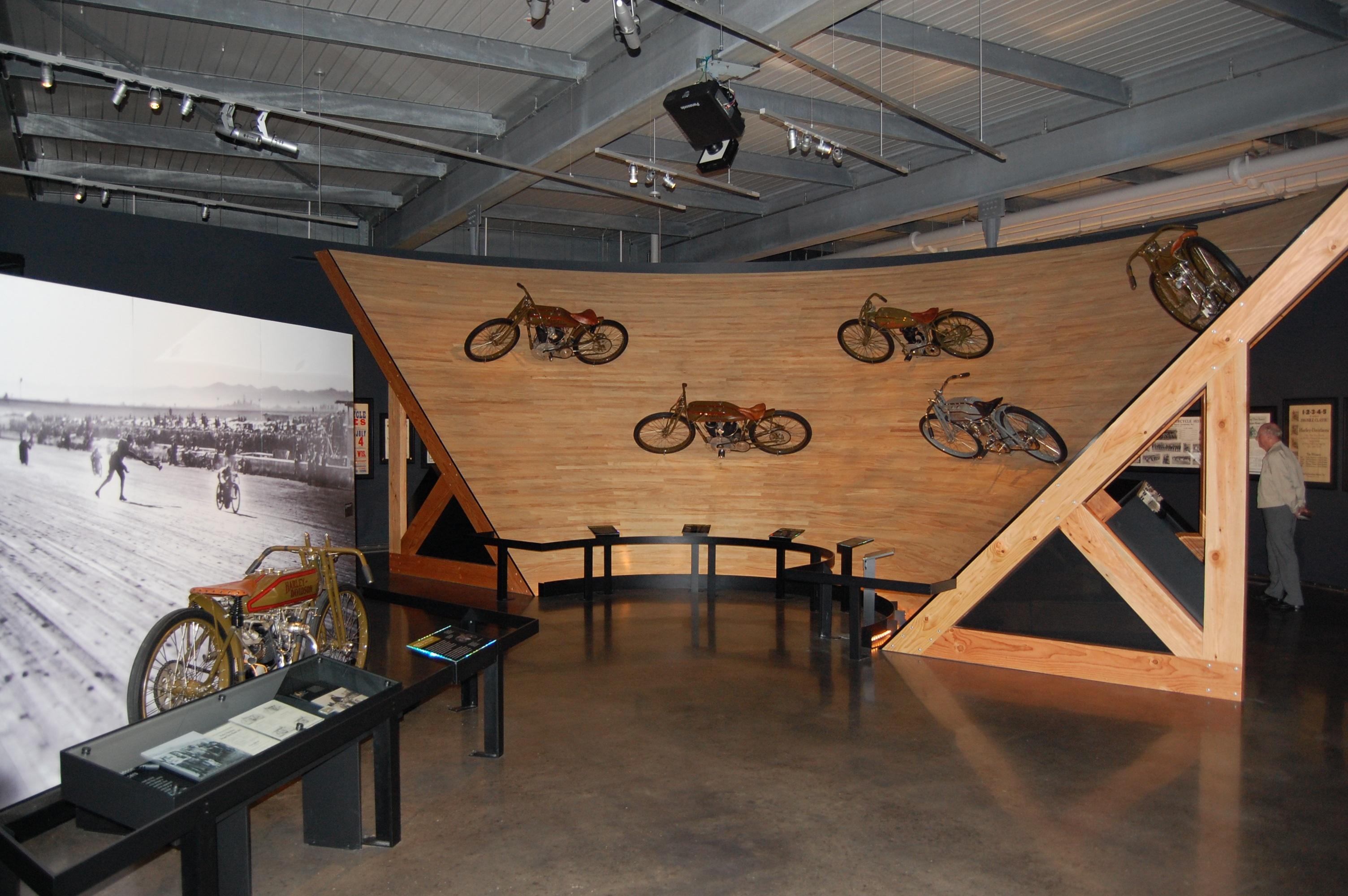 Board Track exhibit in the Clubs and Competition gallery of the Harley-Davidson Museum in Milwaukee, WI.